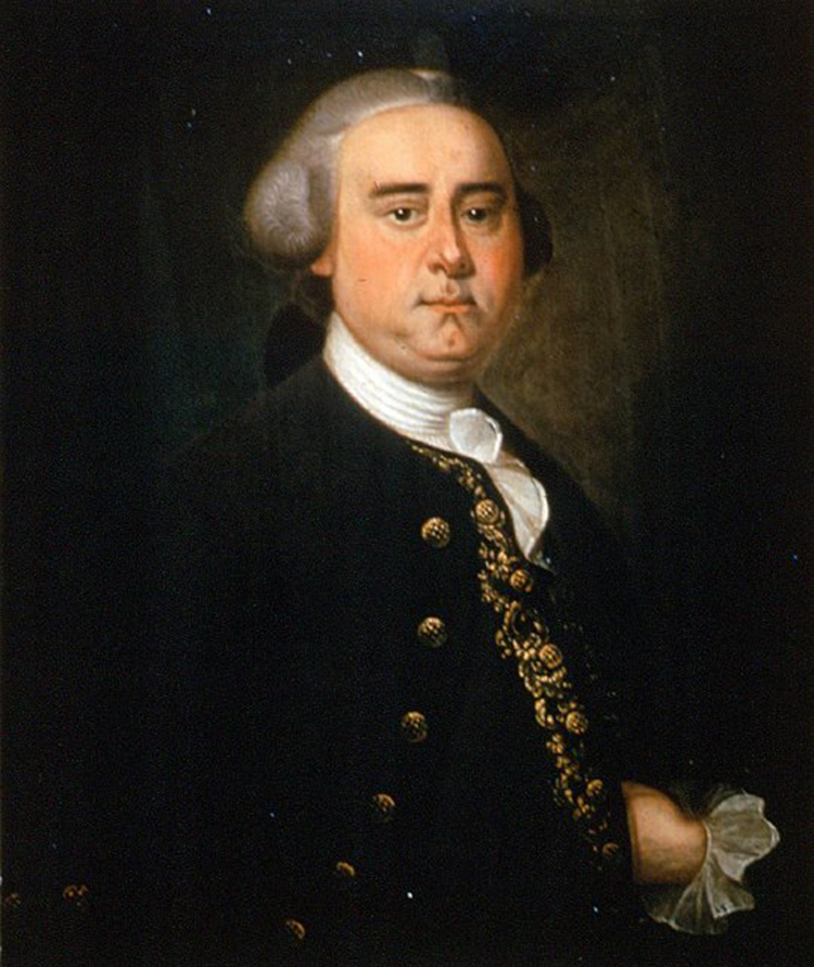 Benjamin Smith (1717–1770) was a merchant banker, politician, plantation owner and slave trader from Charles Town, South Carolina. He served as Speaker of the Royal Assembly.